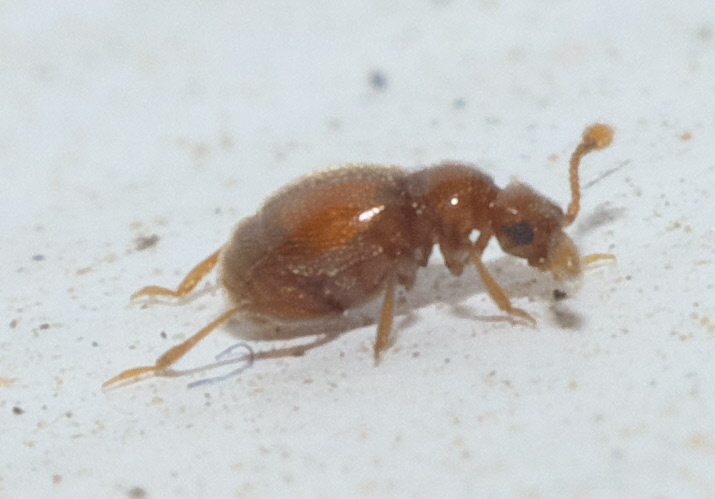 Eutrichites zonatus, Subfamily: Ant-loving Beetles, Size: 1.3 mm, ID Confidence: 98